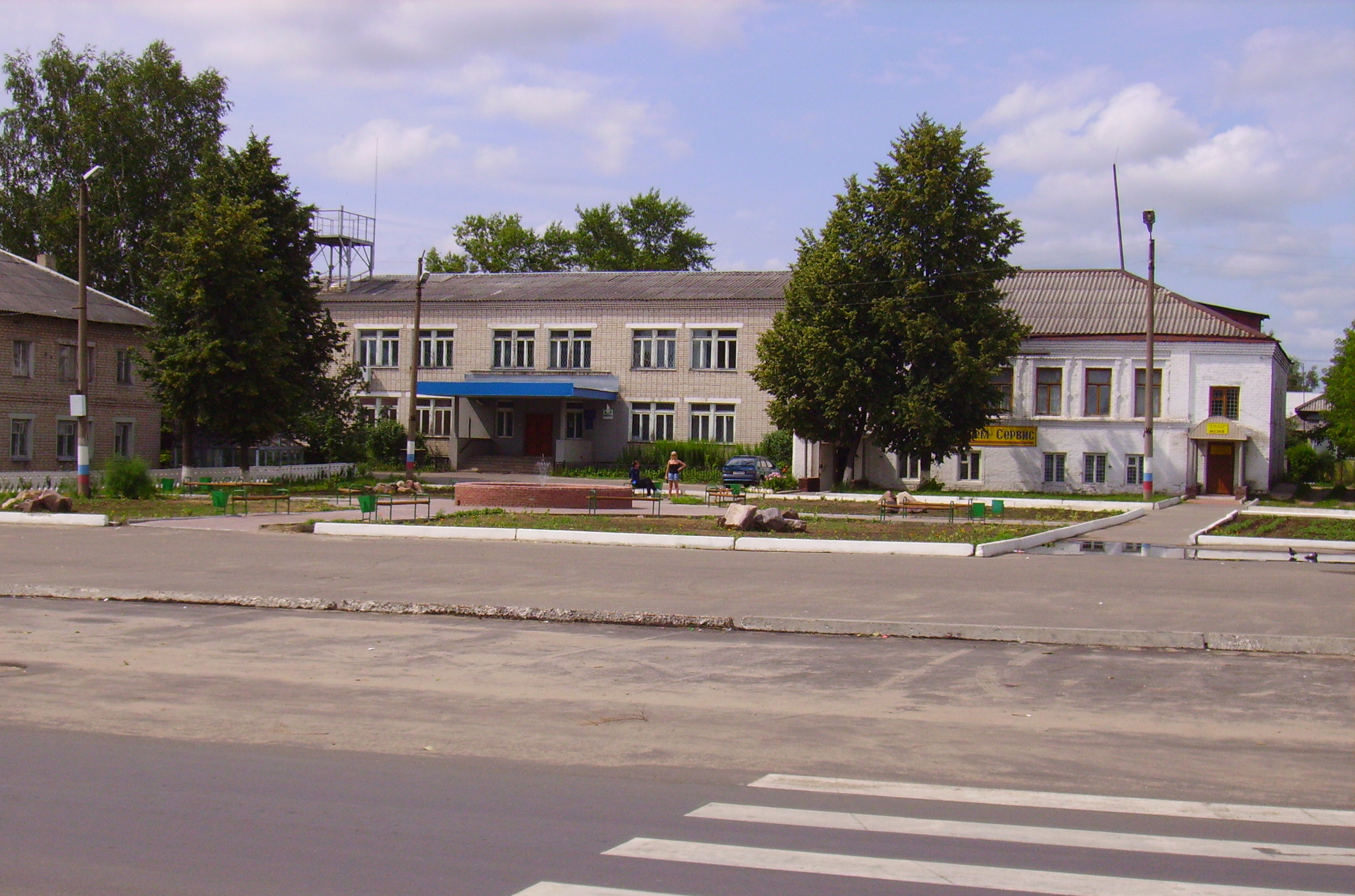 Uren. The Centre of town.